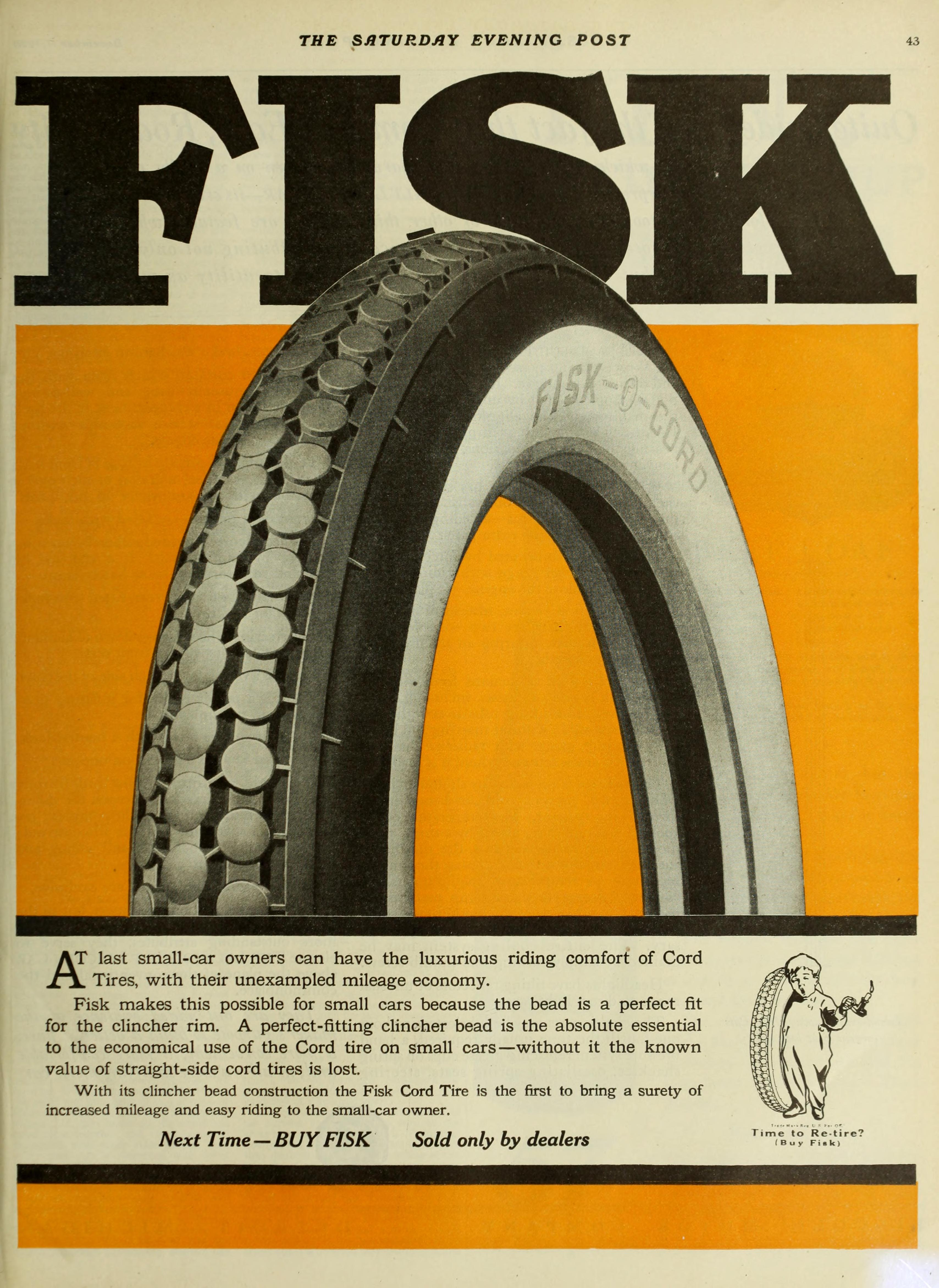 Title: The Saturday evening post Year: 1839 (1830s) Authors: Subjects: Publisher: Philadelphia : G. Graham Text Appearing Before Image: ' Text Appearing After Image: AT last small-car owners can have the luxurious riding comfort of CordJLX. Tires, with their unexampled mileage economy. Fisk makes this possible for small cars because the bead is a perfect fitfor the clincher rim. A perfect-fitting clincher bead is the absolute essentialto the economical use of the Cord tire on small cars—without it the knownvalue of straight-side cord tires is lost. With its clincher bead construction the Fisk Cord Tire is the first to bring a surety ofincreased mileage and easy riding to the small-car owner. Next Time - BUY FISK Sold only by dealers 44 THE SATURDAY EVENING POST December II, 1920 Quite aside from the fact that Comfort, Ease, Roadability and other qualities which make for motoring charm have taken on a really newsignificance—as interpreted by THE LELA ND-BUILT LINCOLN CAR—its creators havetaken forethought, too, of a multitude of other things. They are features whichthe experienced motorist will recognize at once as contributing not only toend